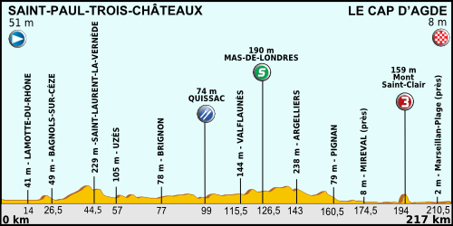 Profil of the 13th stage of the Tour de France 2012